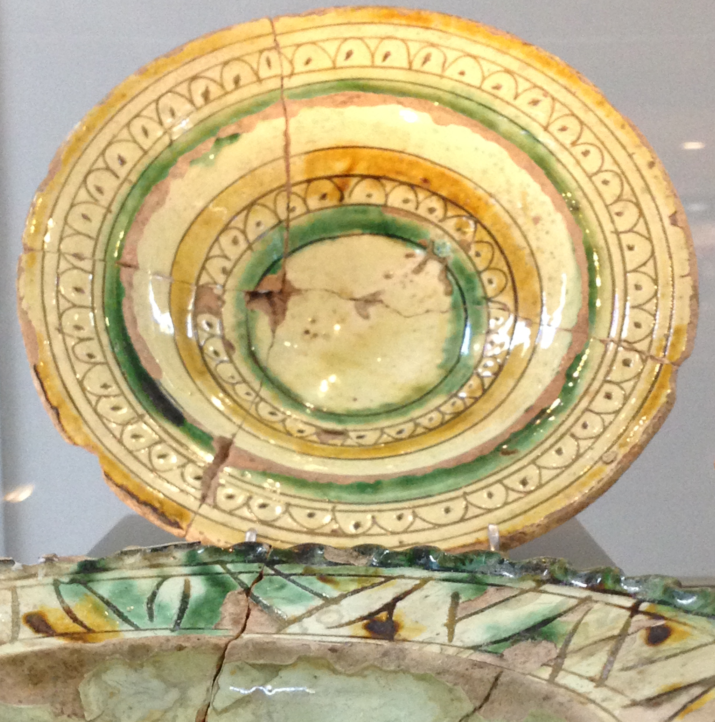 Terracotta bowls found in Tyre/Sour, Southern Lebanon, from the crusader period (12th-13th century), collections of the National Museum of Beirut, on display at Beirut International Airport